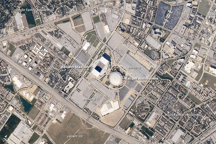 Reliant Park Area, Houston, Texas Includes Astrodome & Reliant Stadium